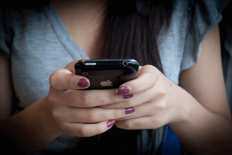 A woman uses her iPhone to communicate and process information